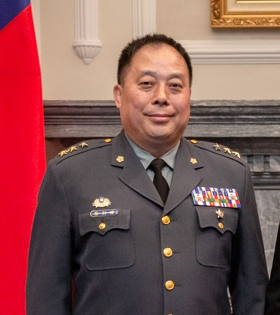 General Hsu Yen-pu, newly appointed Vice Chief of the General Staff (Executive).